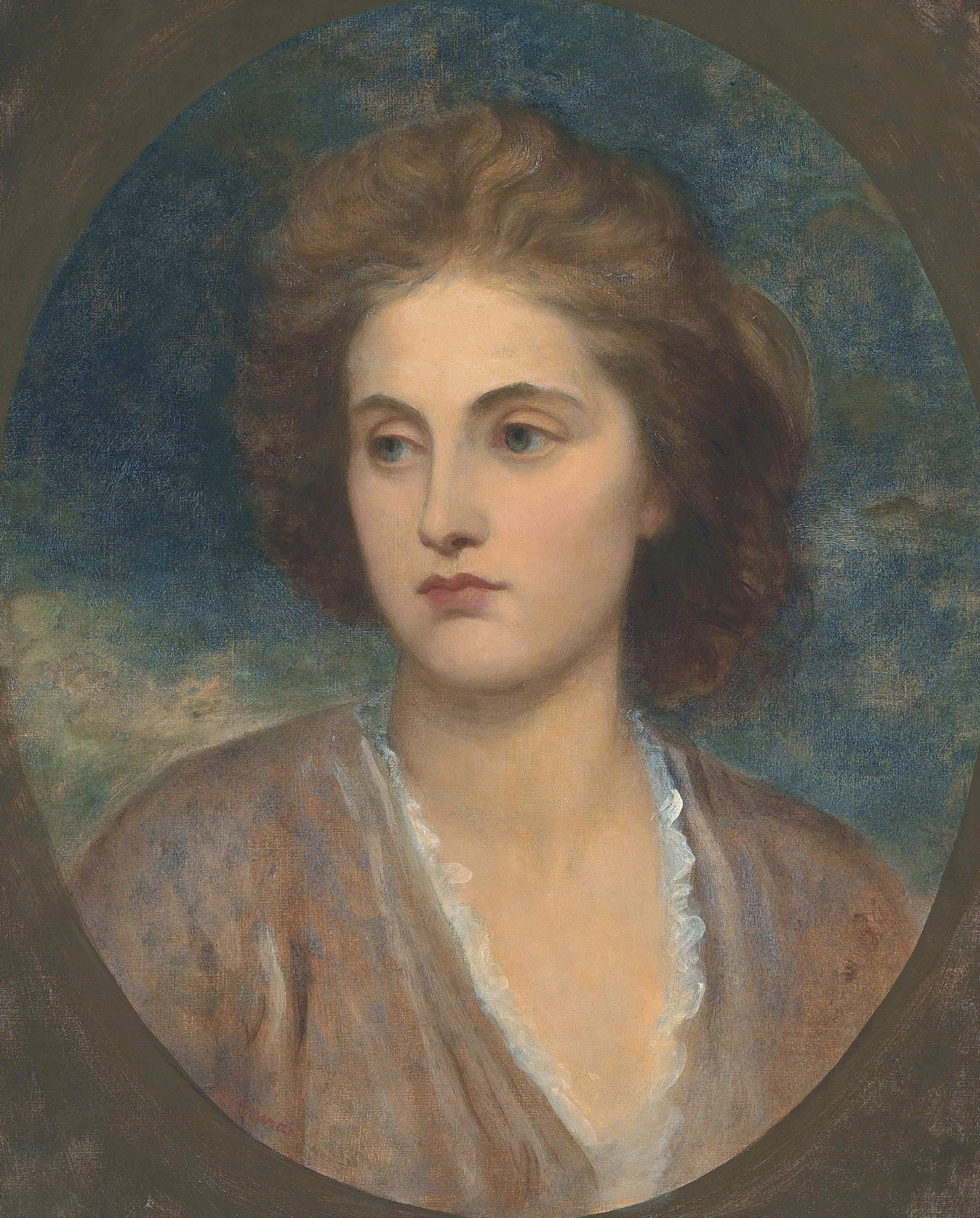 Emma Elizabeth Brandling, later Lady Lilford signed b.l.: G.F. Watts oil on canvas 60.5 x 49.5 cm